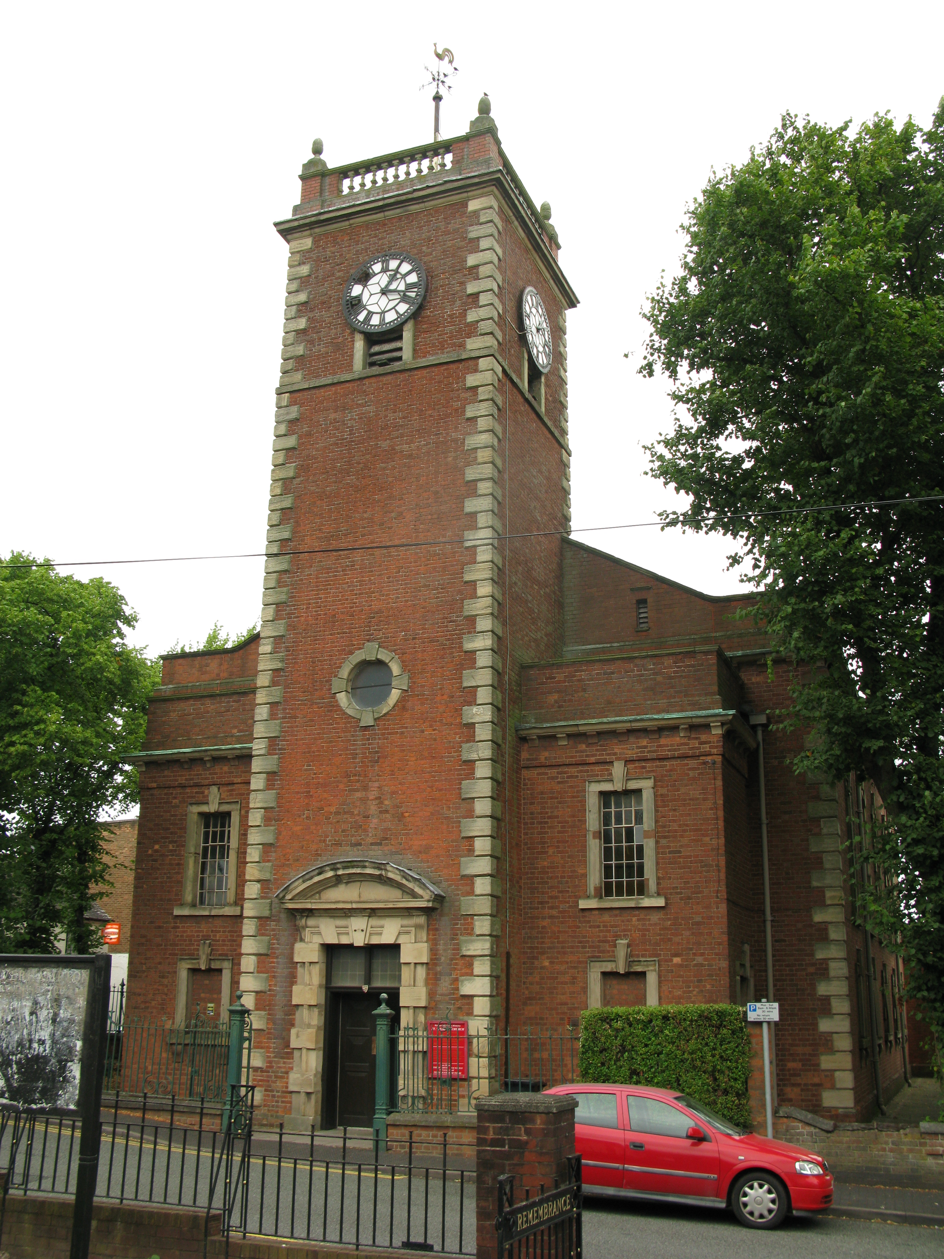 Grade II